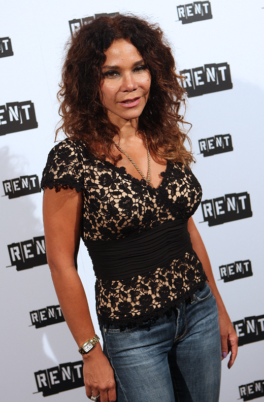 Daphne Rubin-Vega attending the Broadway final performance of Rent